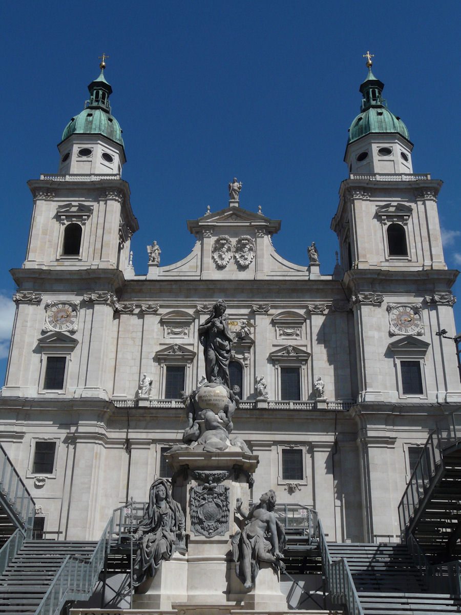 Salzburg Cathedral, Salzburg, Austria